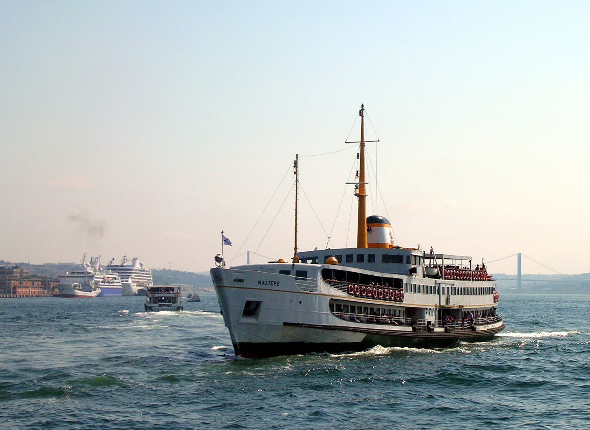 MALTEPE, a commuter ferry in Instabul. IMO Number: 5406754 MMSI Number: 271002507 Callsign: TC5433 Length: 67 m Beam: 12 m